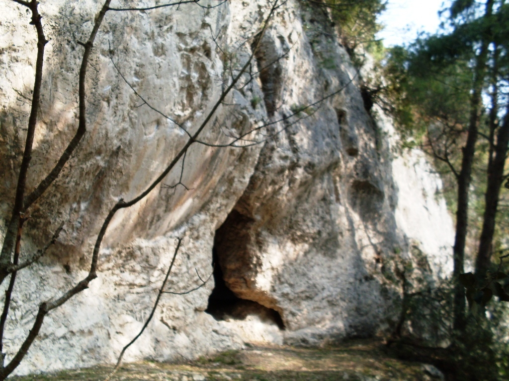 Italy Ancona Mount Conero - Mortarolo cavern entry